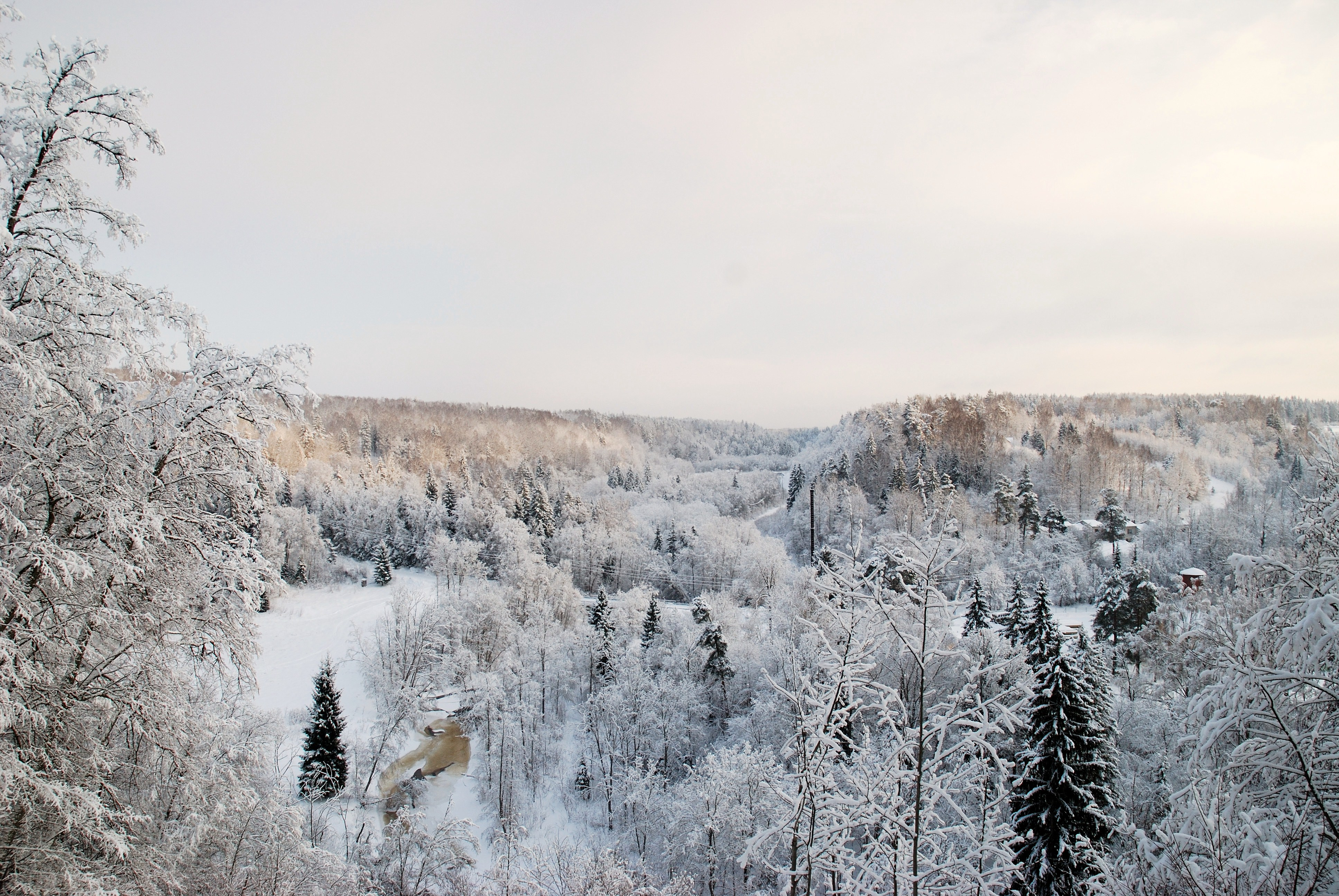 View from Ainavu krauja in winter